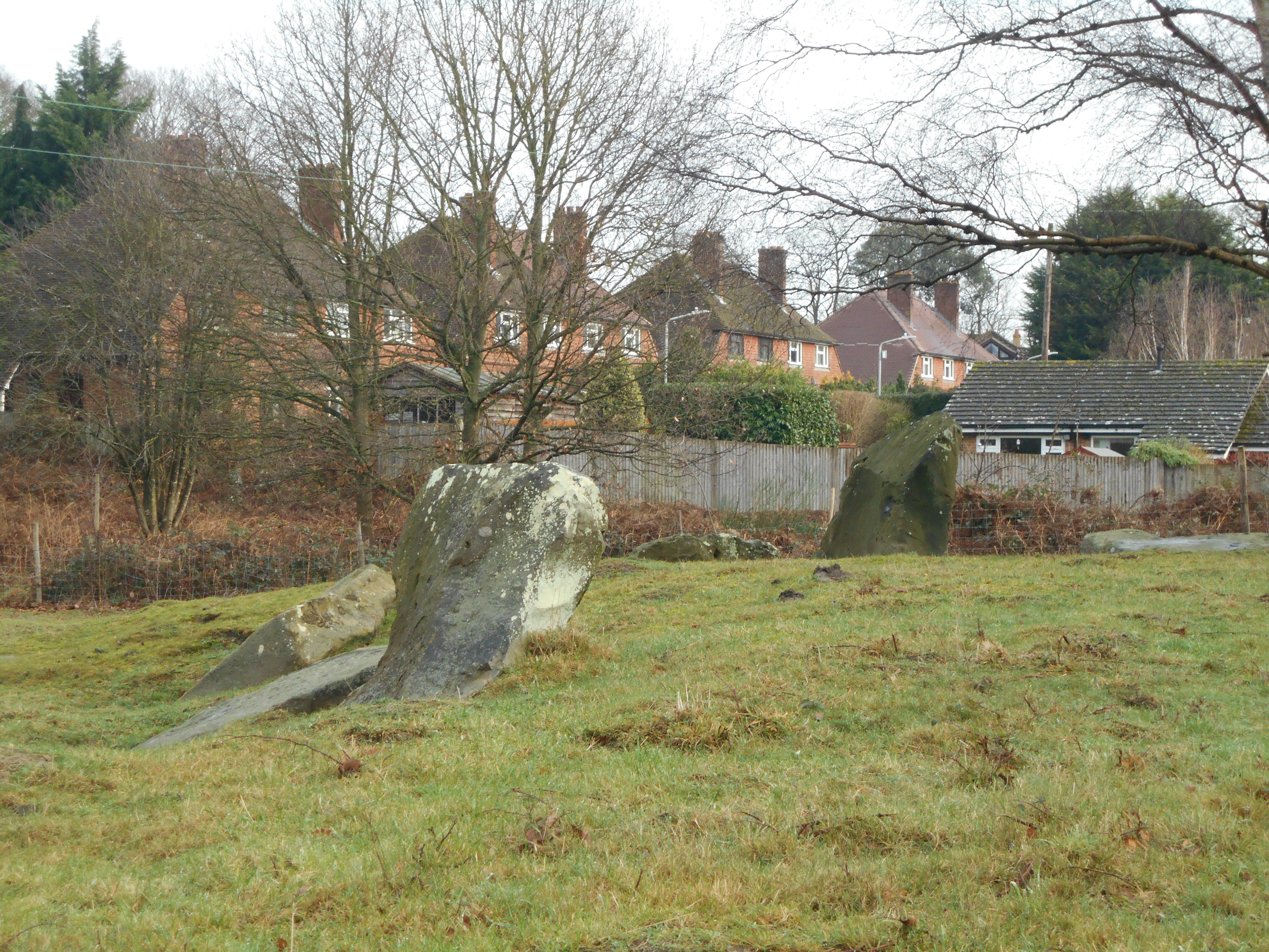 Addington Long Barrow, one of the Medway Megaliths, in the village of Addington, Kent. The barrow is cut in half by a modern road. This photo is of the portion to the north of the road, which incorporates most of the sarstens.